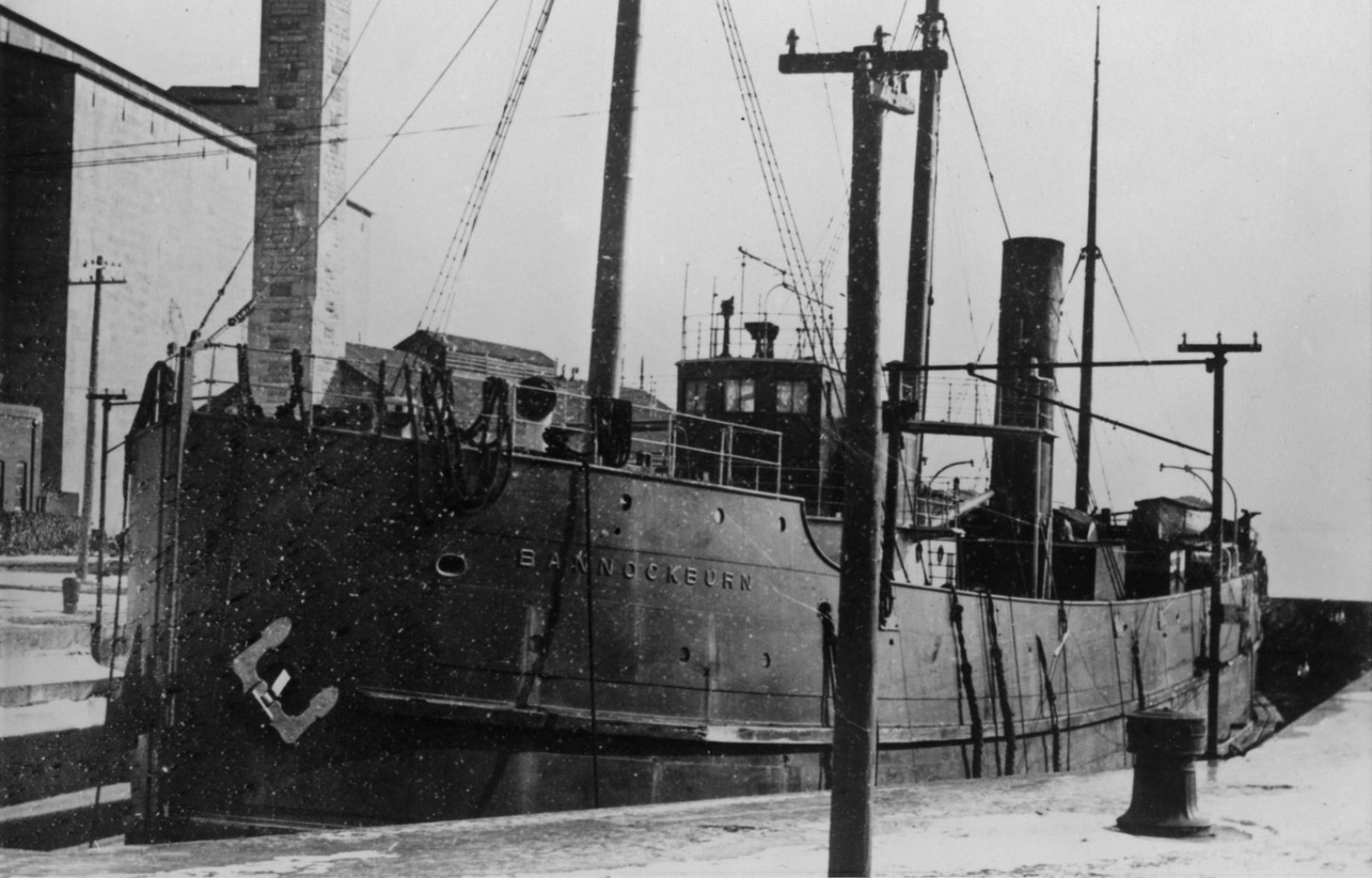 Photograph of the Montreal Transportation Company freighter BANNOCKBURN in the Kingston dry dock